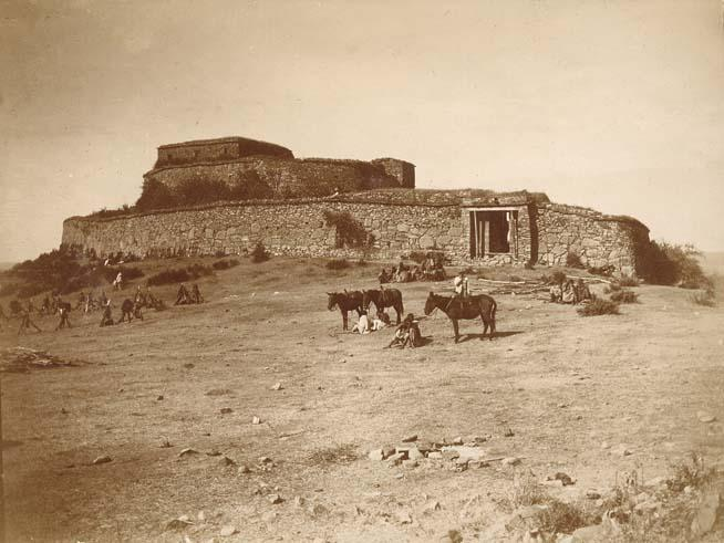 Site of Ethiopian siege of the Italian garrison between December 1895 and January 1896